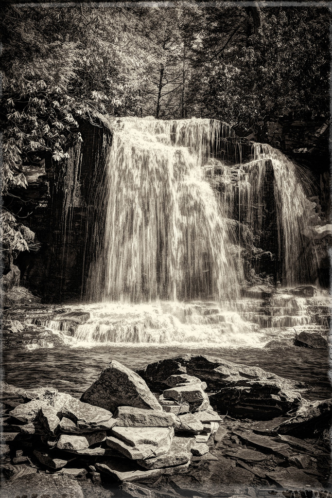 water fall, new york, sullivan county